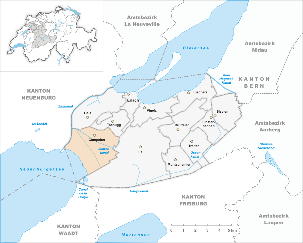 Municipality Gampelen